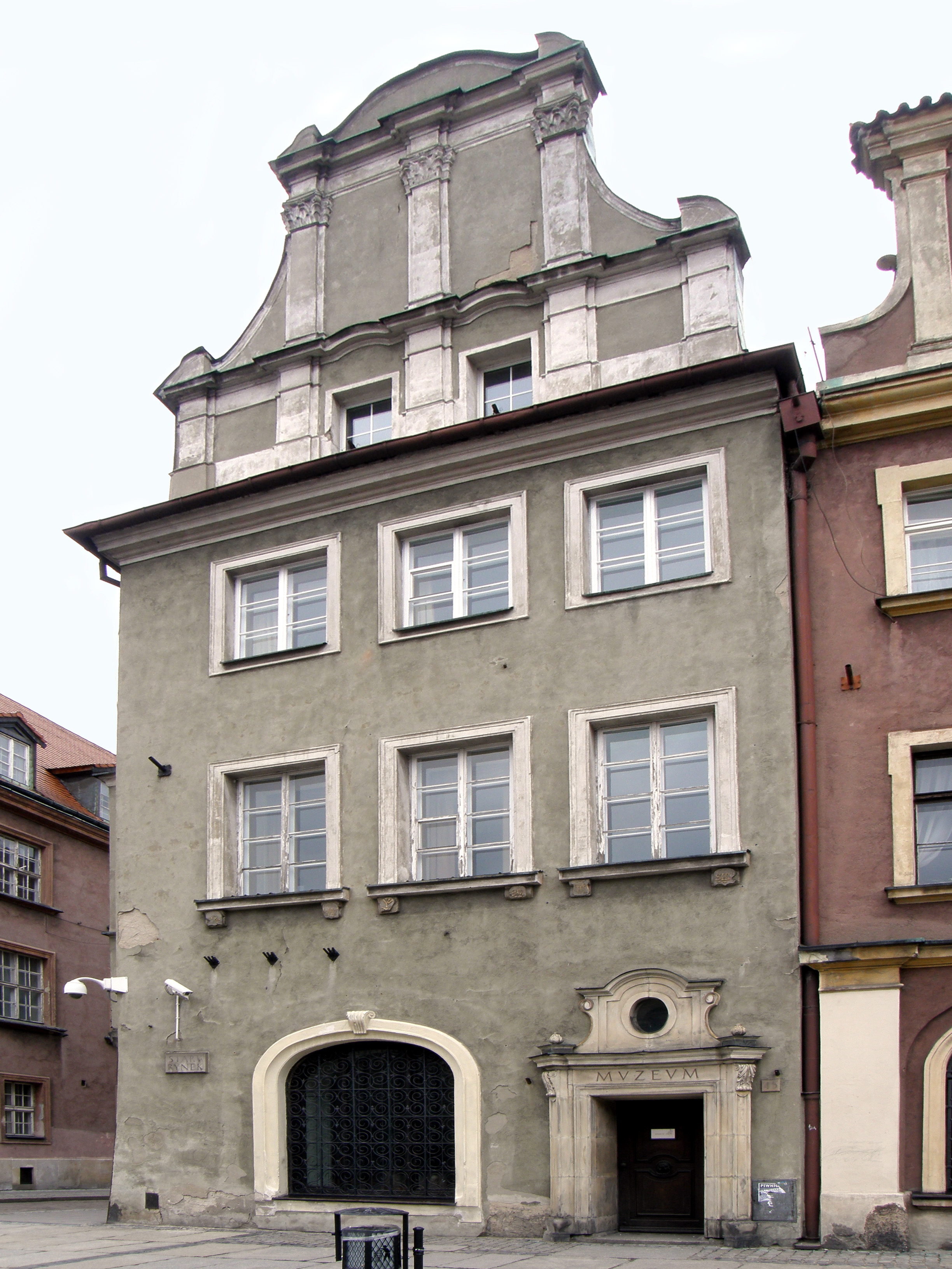 Museum of Musical Instruments in Poznań